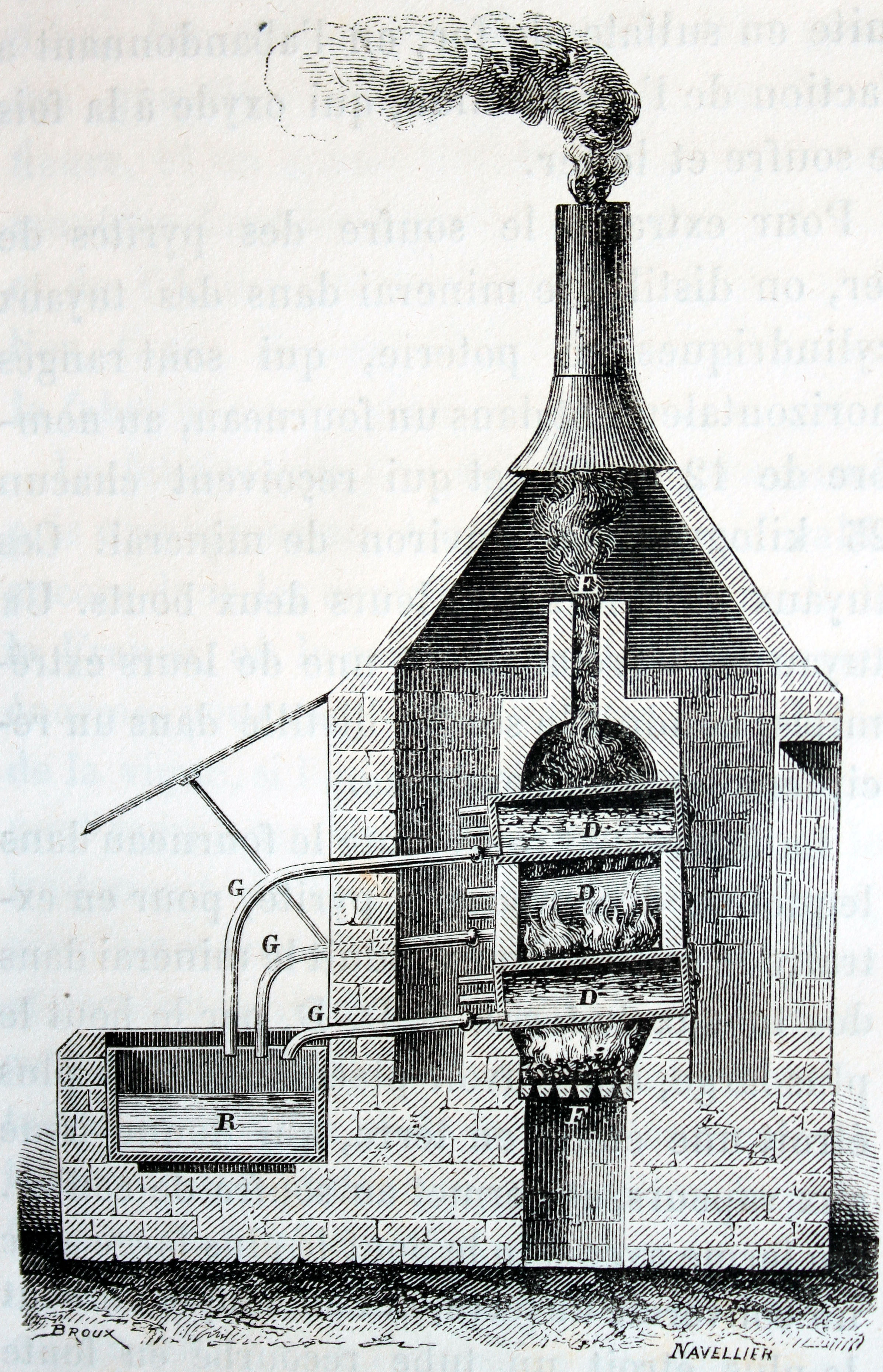 "Extraction of sulfur by distillation from pyrite"